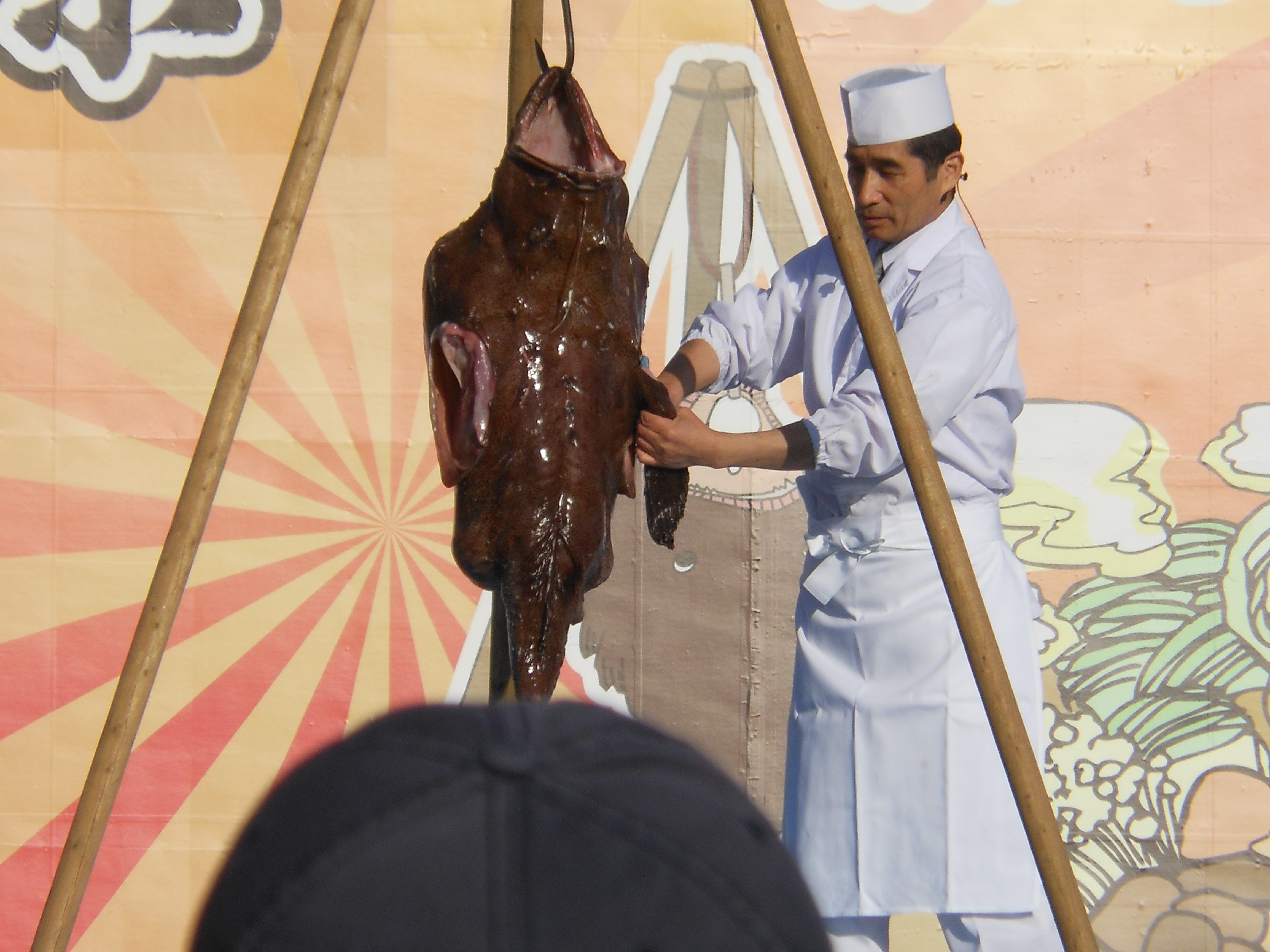 This is one scene of cutting anglerfish at Oarai Anglerfish Festival 2014 in Oarai, Ibaraki, Japan.